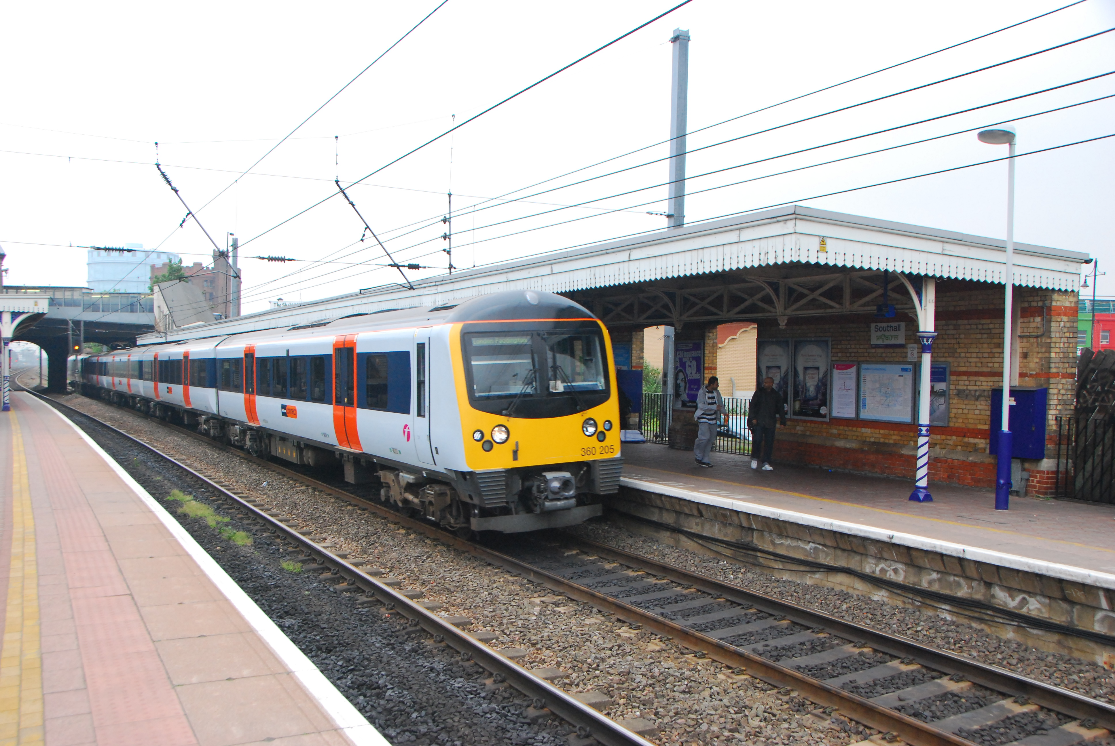 Heathrow Connect 360205 at Southall